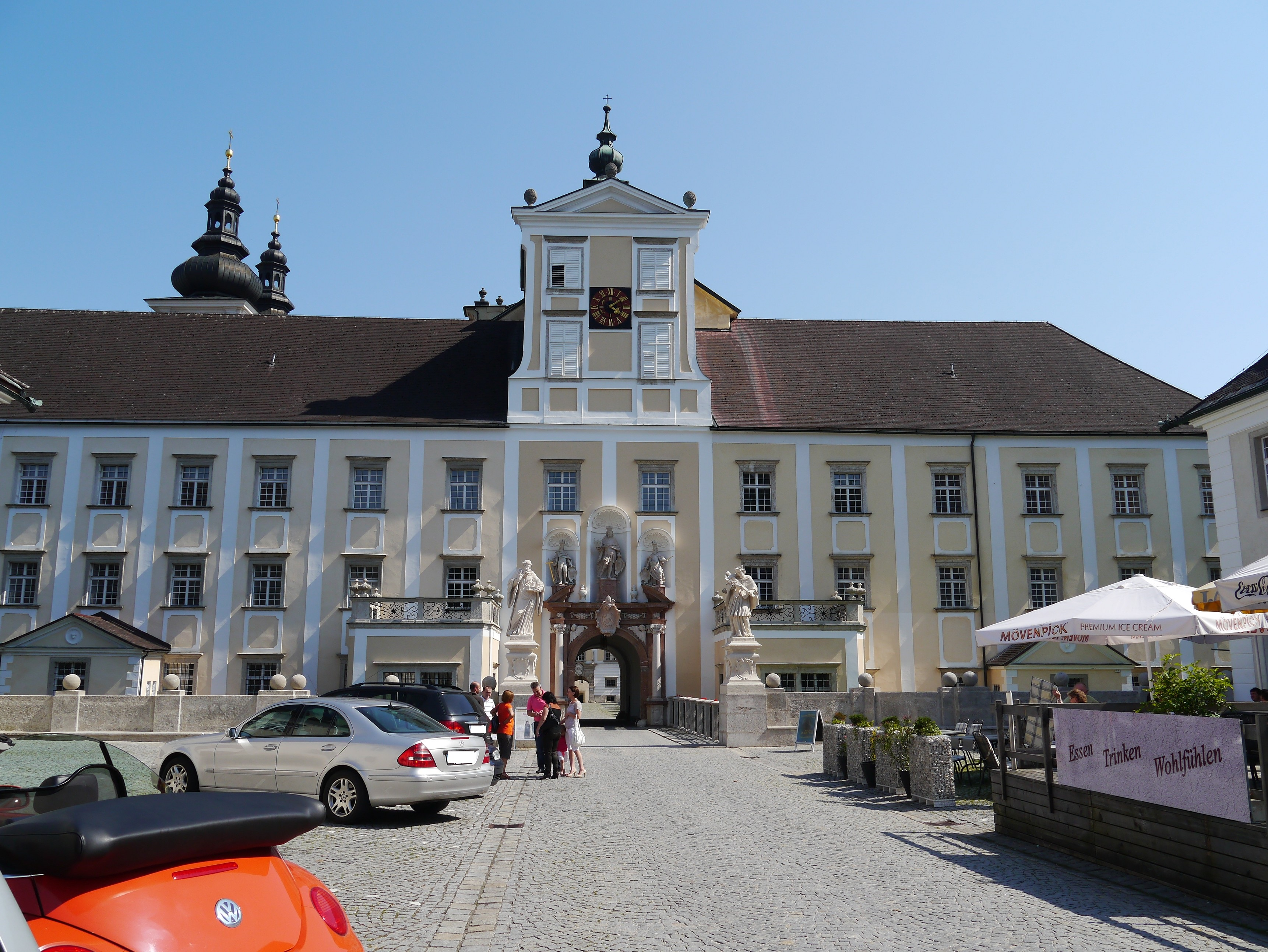 First Courtyard of Kremsmünster Abbey, Kremsmünster, Upper Austria